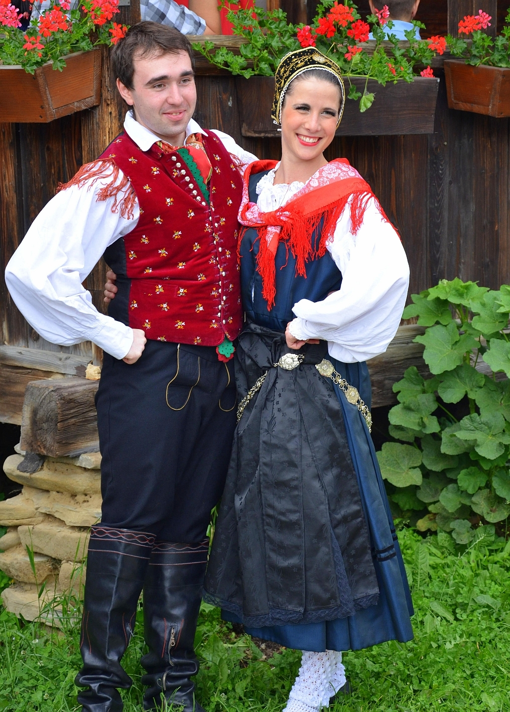 Funfairs in Skansen in Sanok